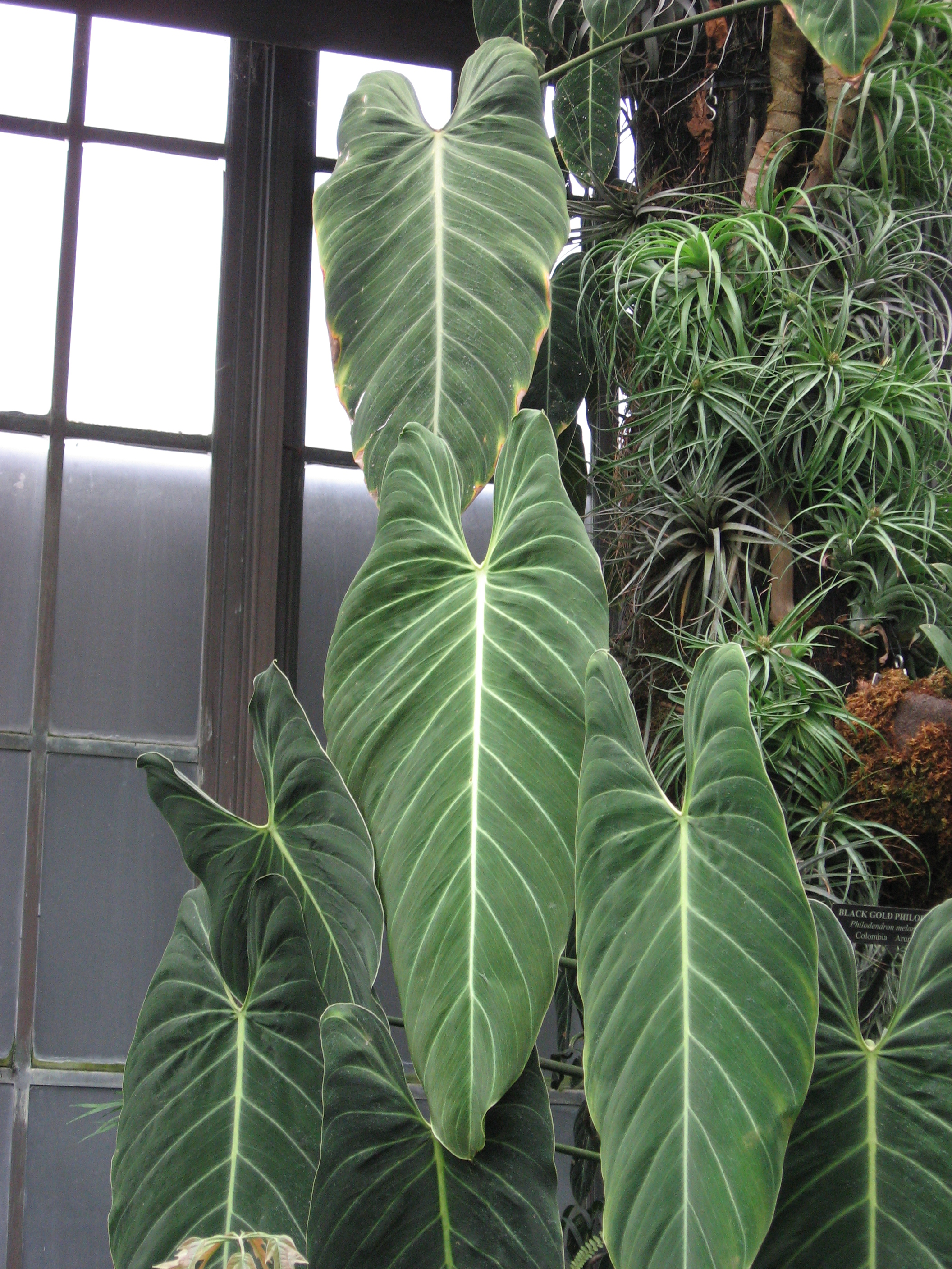 A picture of Philodendron melanochrysum.